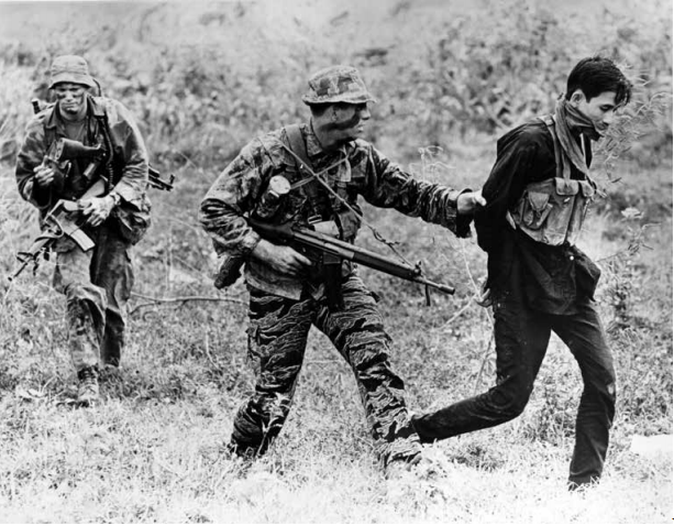 SEALs Terry Sullivan, left, and Curtis Ashton with a captured Viet Cong in the My Tho area, 1969.